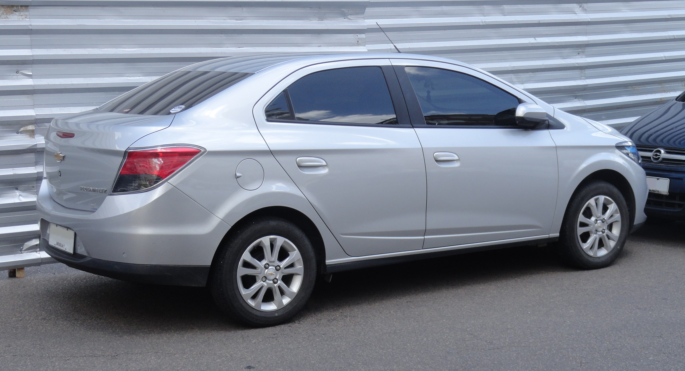 Chevrolet Prisma in Punta del Este (Uruguay)